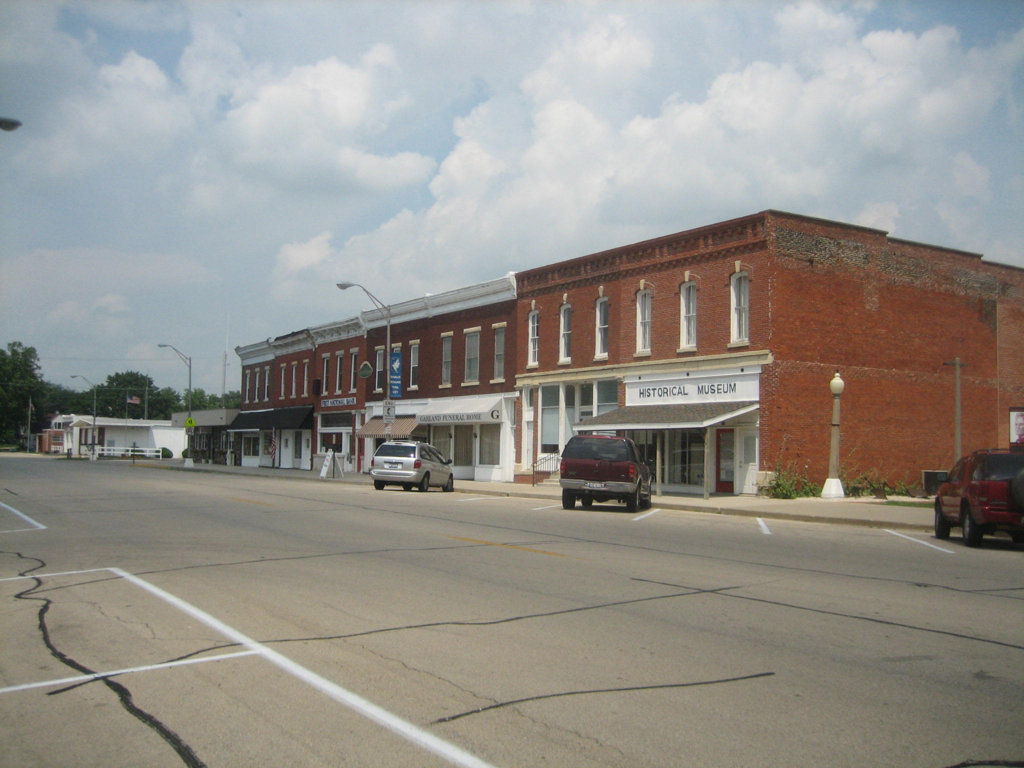 Main Street Historic District, Tampico, Illinois. U.S. National Register of Historic Places. 100 block of Main Street (odd numbers).